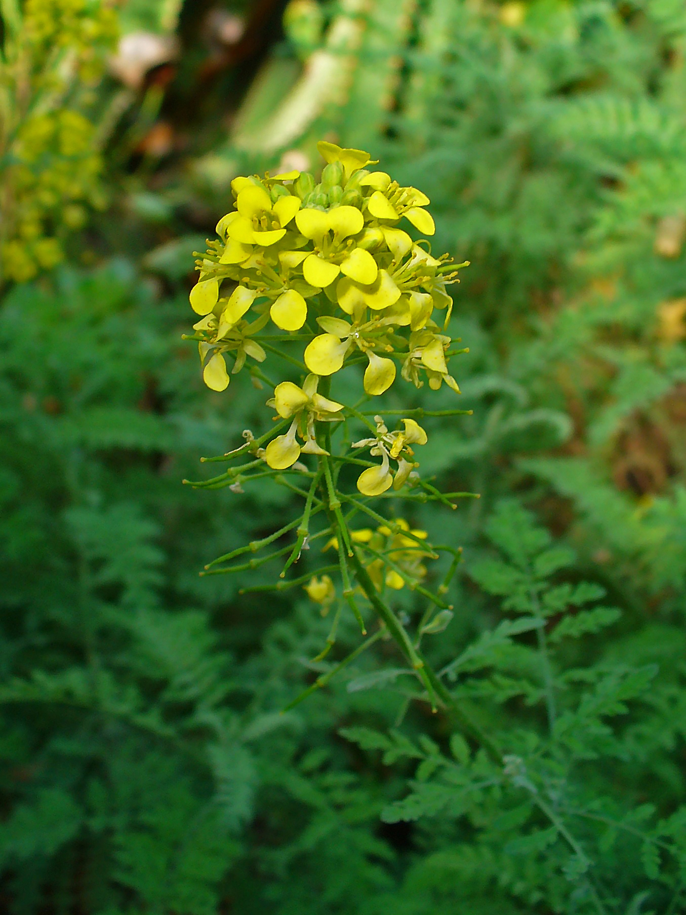 Descurainia bourgaeana, Brassicaceae, Flixweed, inflorescence; Botanic Garden Universiy Tübingen, Germany.